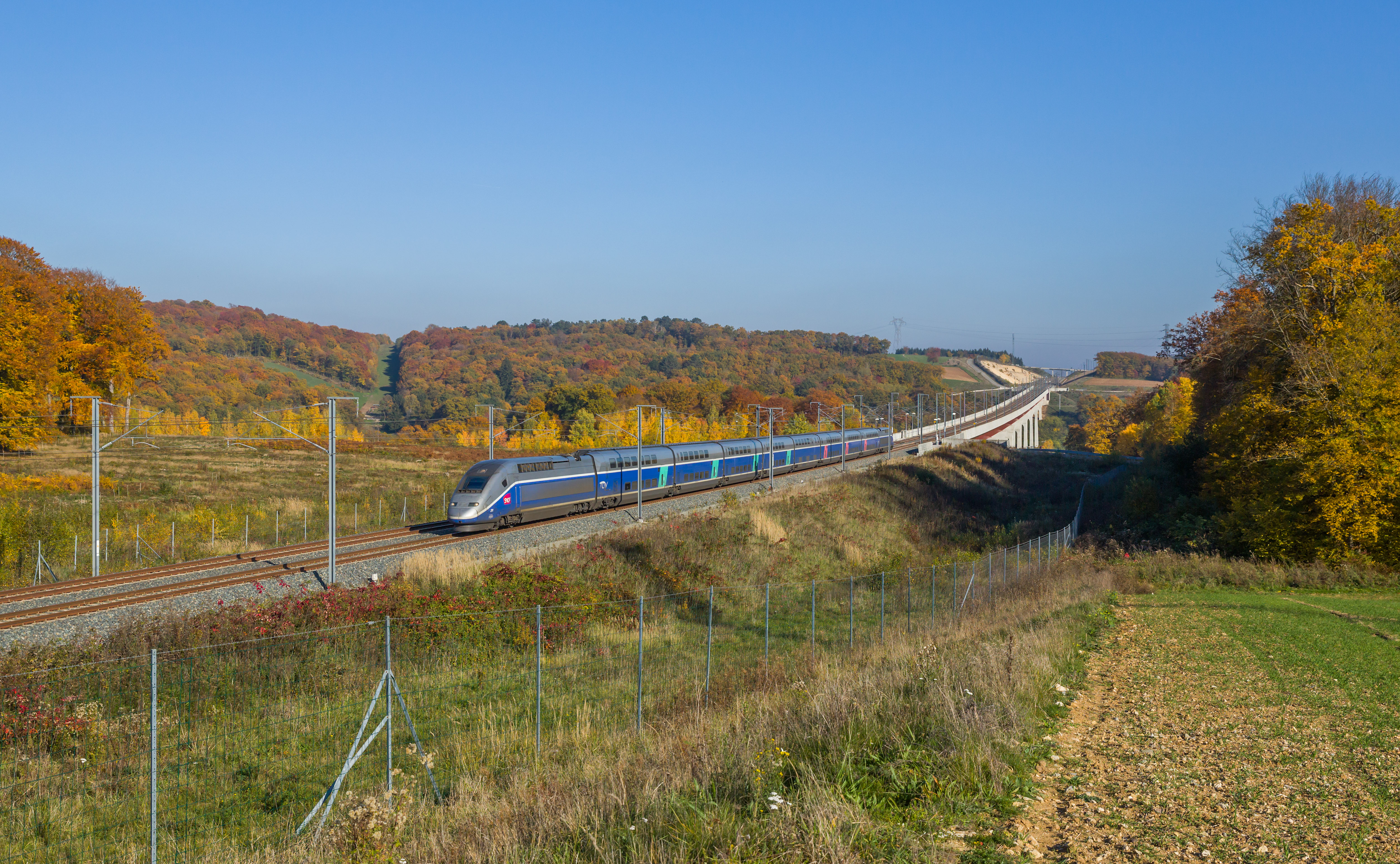 SNCF TGV Duplex 6841 Strasbourg - Montpellier has just accelerated to about 300 km/h on the new LGV Rhin-Rhône between Belfort and Dijon. Pictured near Héricourt, France.